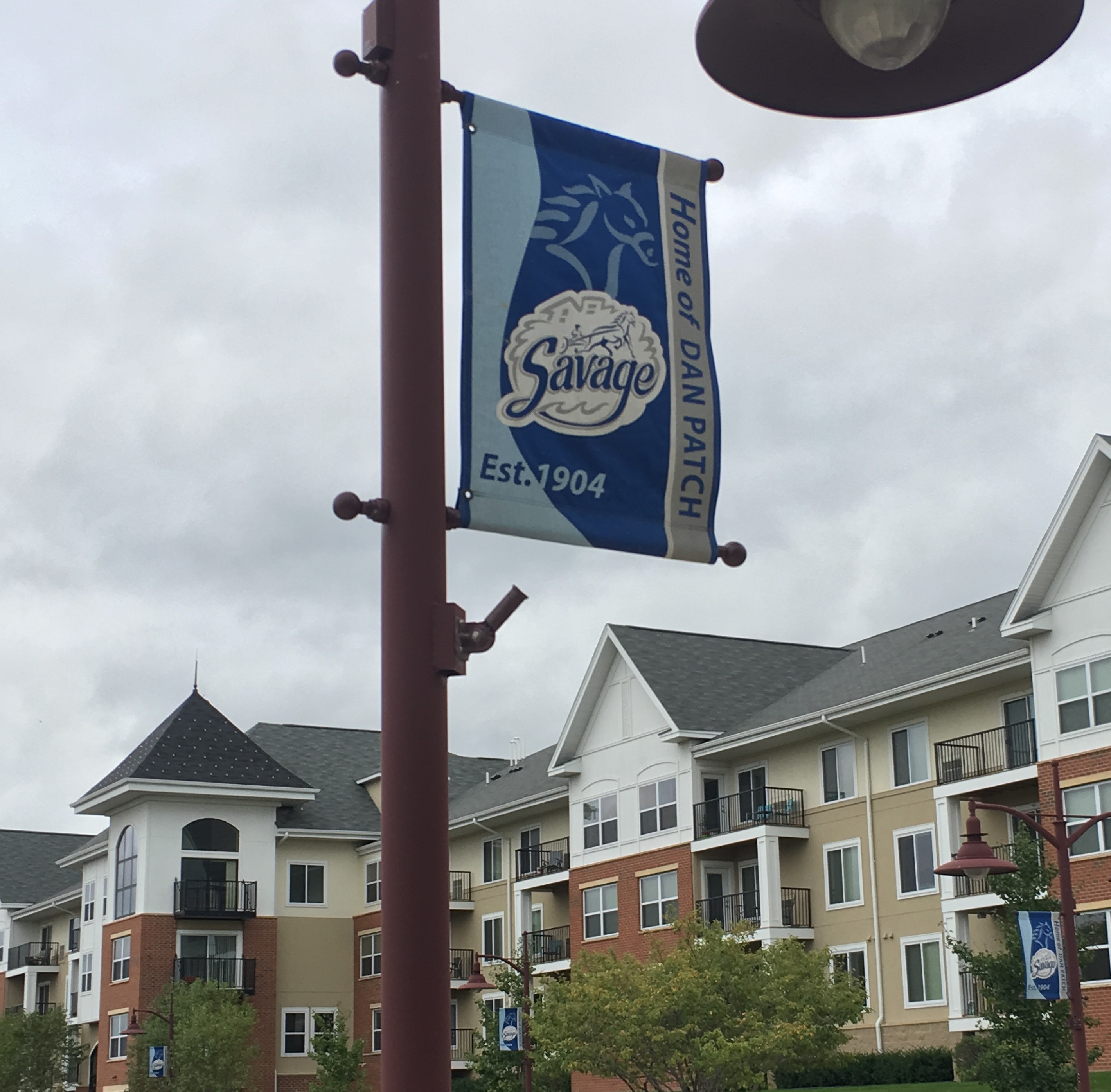 Banners commemorating racehorse Dan Patch on the corner of 123rd St. and Natchez Ave. in Savage, Minnesota